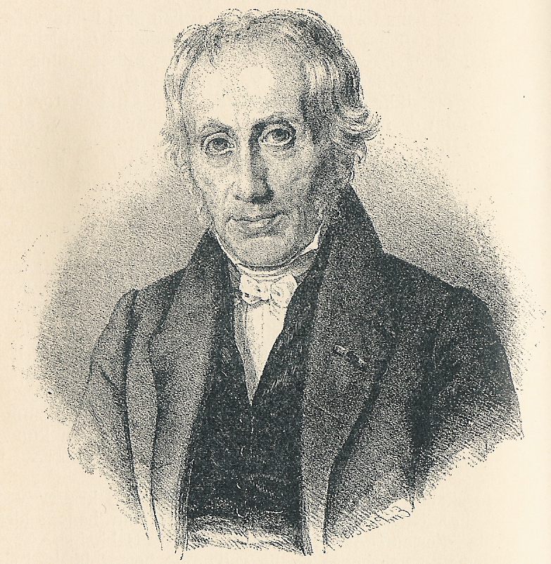 Painting of Erich Christian Werlauff